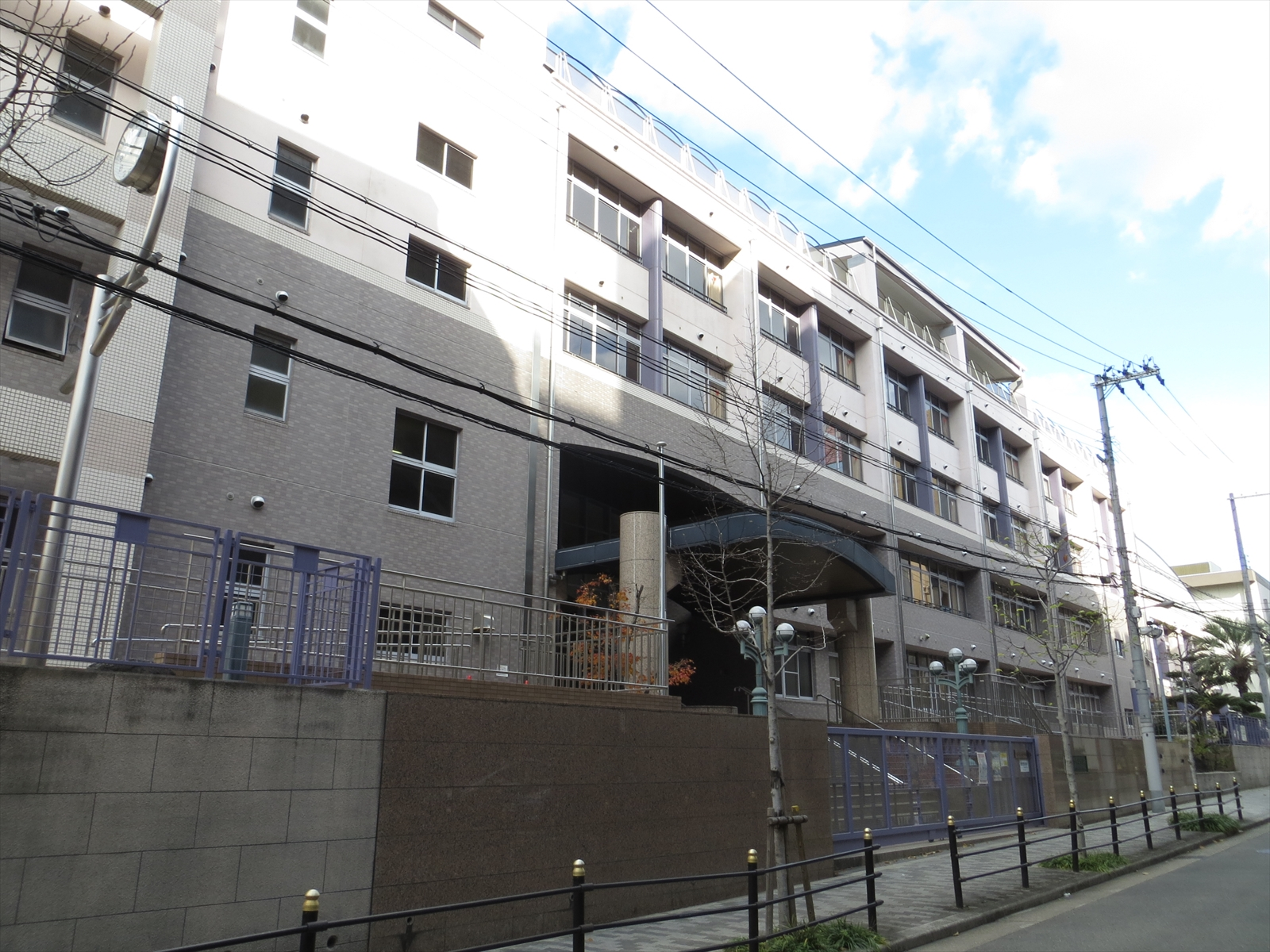 Osaka City Temma Junior High School.